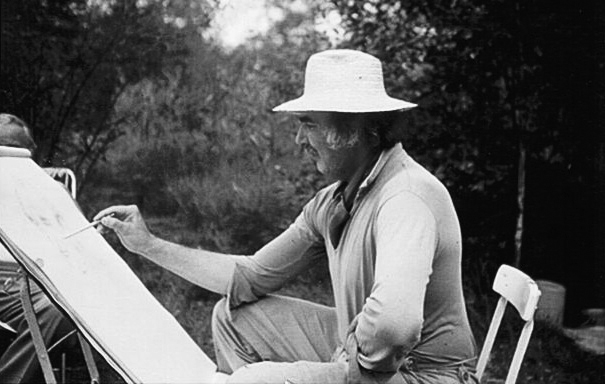 Heinz Braun while painting